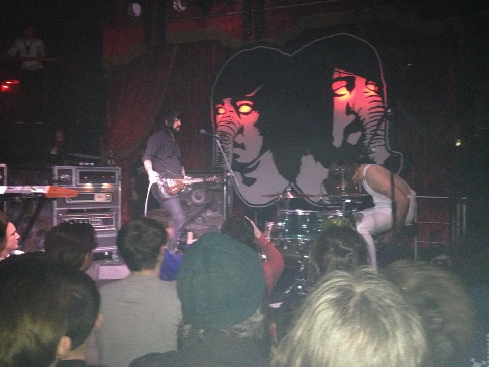 Death From Above 1979 performing at The Academy in Dublin in February 2015.